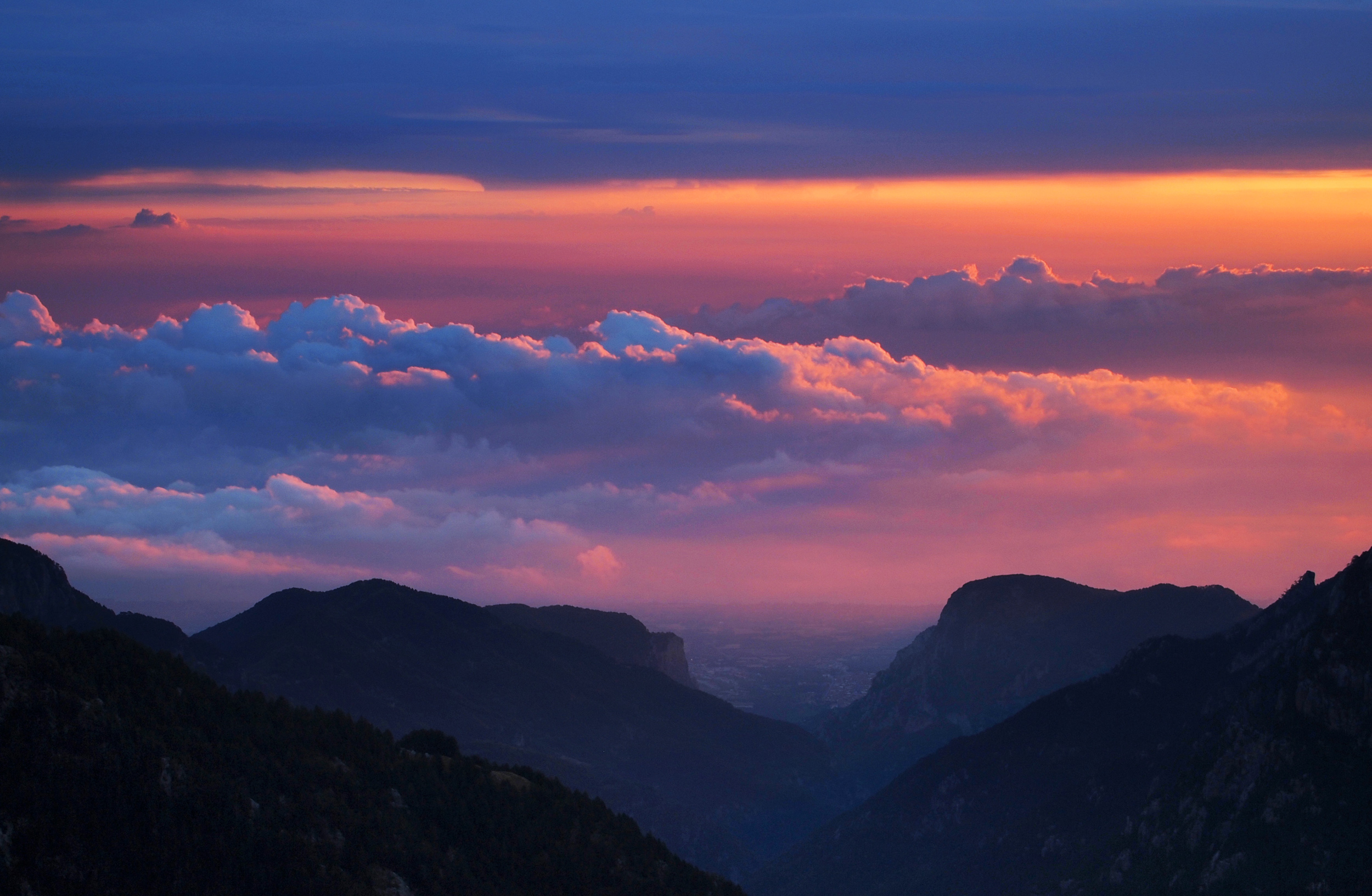 Η ανατολή από τα 2200μ. Στο βάθος το Λιτόχωρο. This is a photography of Natura 2000 protected area with ID GR1250001